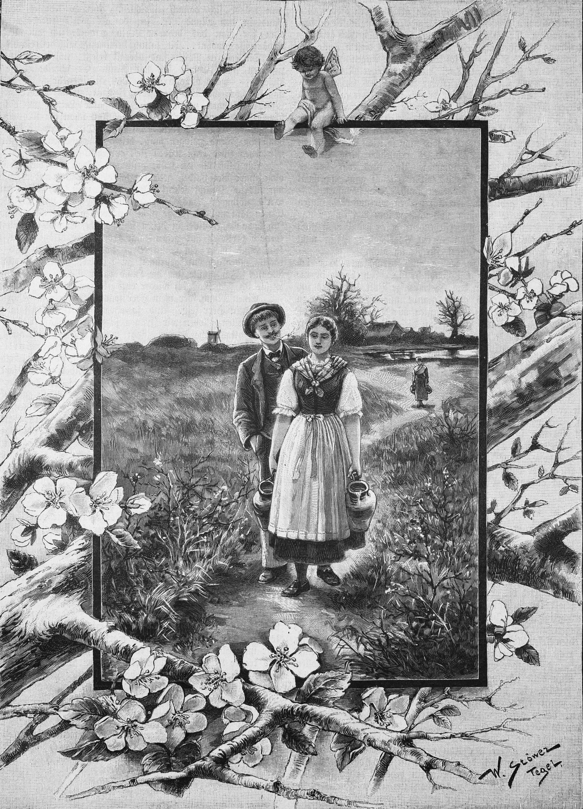 caption: "Der Gang nach dem Osterwasser.Originalzeichnung von W. Stöwer."